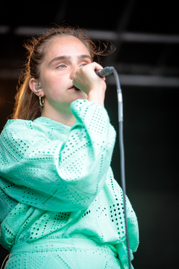 Sunniva Lindgaard in a concert with Sassy 009 at the Triangel stage in the Vigeland Park. The concert was part of Piknik i Parken and took place on 16. June 2018 in Oslo. Lineup:Sunniva Lindgaard (keyboard and vocal)Teodora Georgijevic (vocal)Johanna Scheie Orellana (flute and vocal)